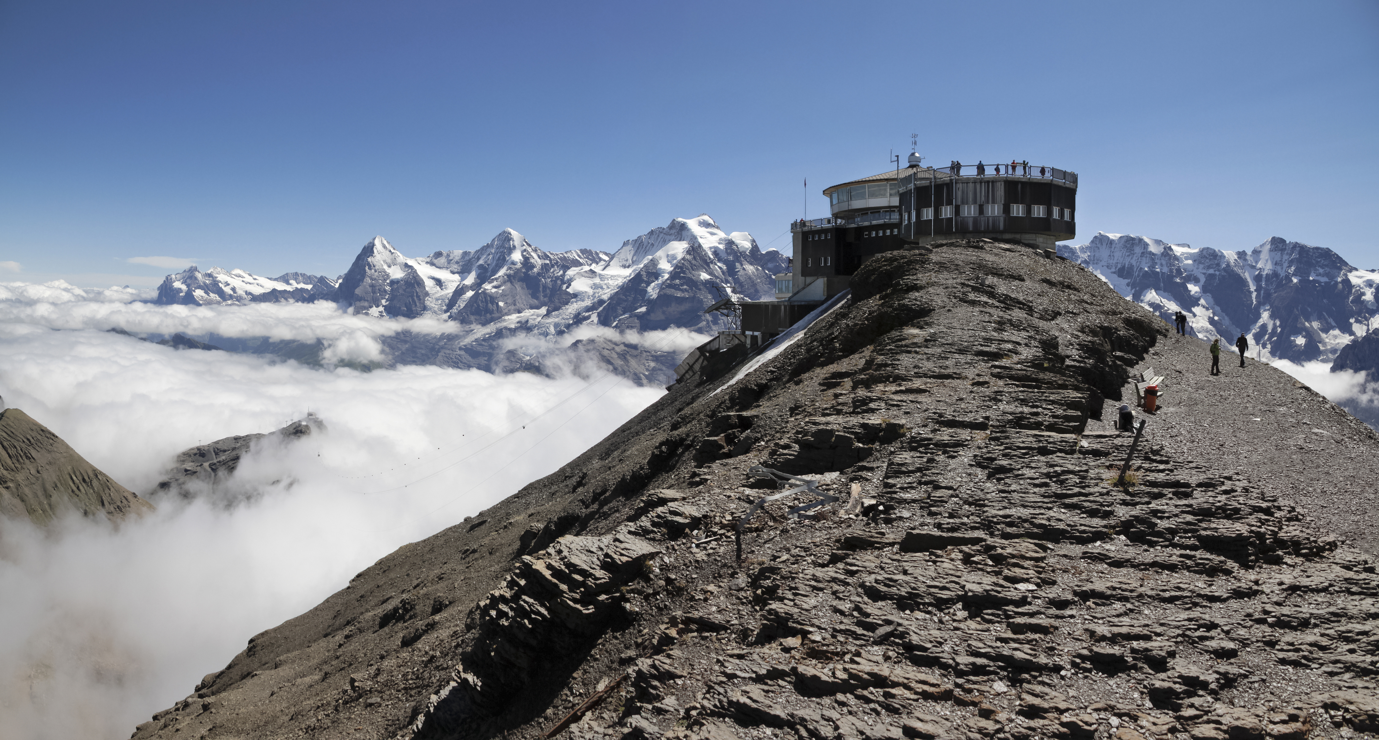 A view towards Schilthorn from the direction of its west ridge in the canton of Bern, Switzerland. The mountains in the background belong to the Bernese Alps. These are from left to right, the Eiger, the Mönch (between Eiger and Mönch : the Eiger Glacier, "der Eigergletscher") and the Jungfrau and the col between the two last, the scarcely visible Jungfraujoch.